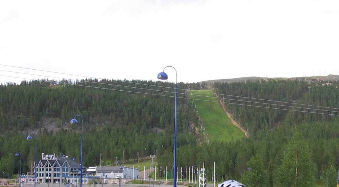 Levi fell and ski resort near Sirkka in Kittilä, Finland, July 2005